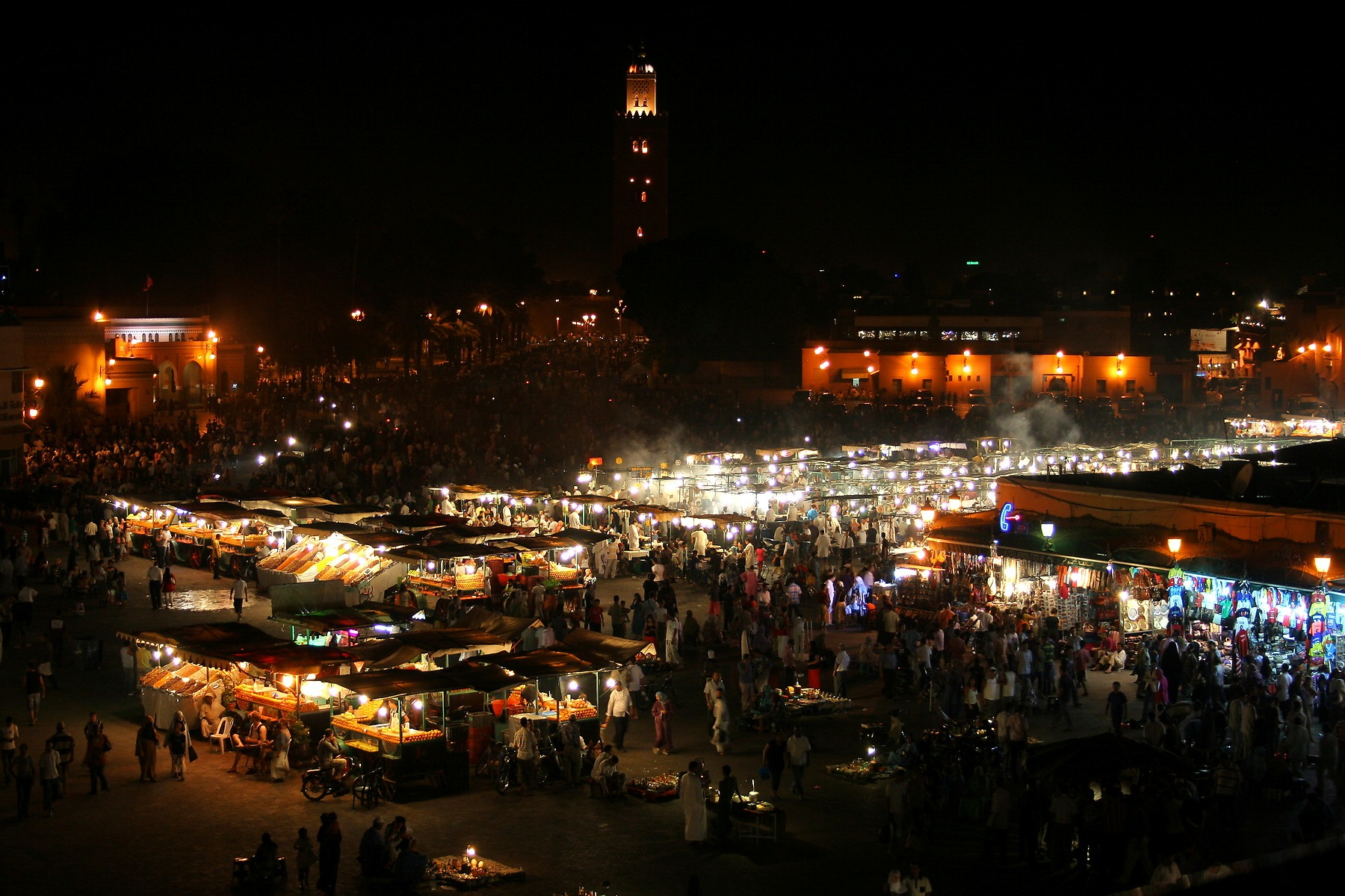 Jamaa El Fna in Marrakesh at night, with its characteristic crowd, stalls with fruit and steam from food stalls. In background Kutubiyya Mosque minaret.